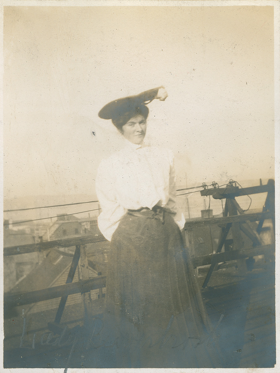 In January 1906, Gladys Henderson Drury (1885-1927) married Max Aitken, Lord Beaverbrook. Note the words "LADY BEAVERBROOK" written across the bottom of the photograph.